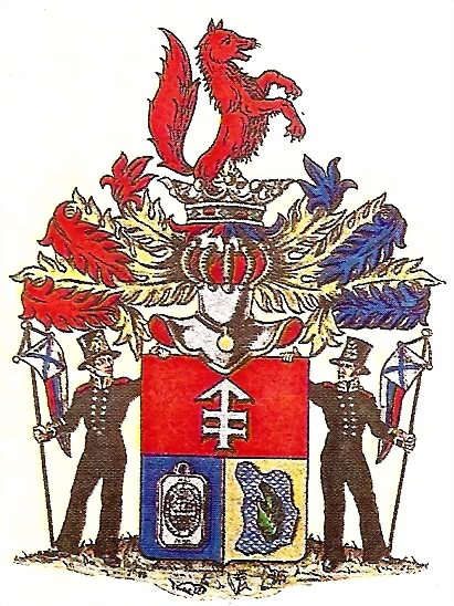 Coat of Arms of Lisianski family